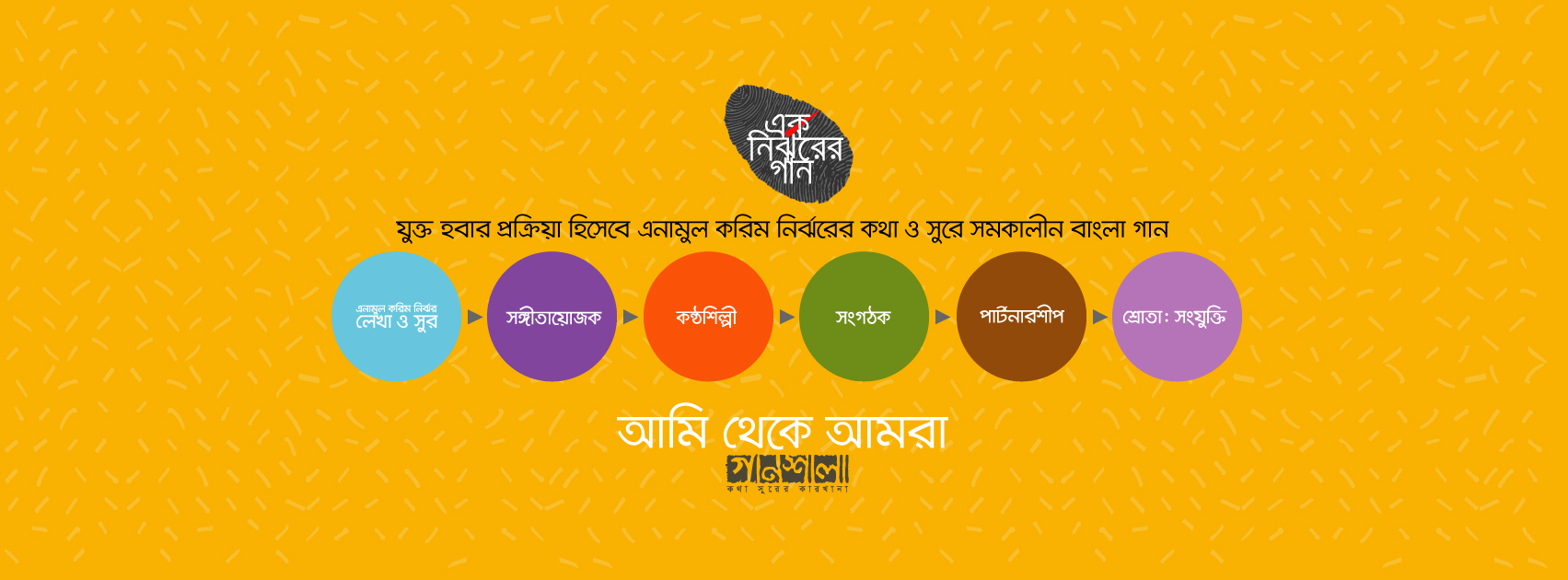 Gaanshala-concept